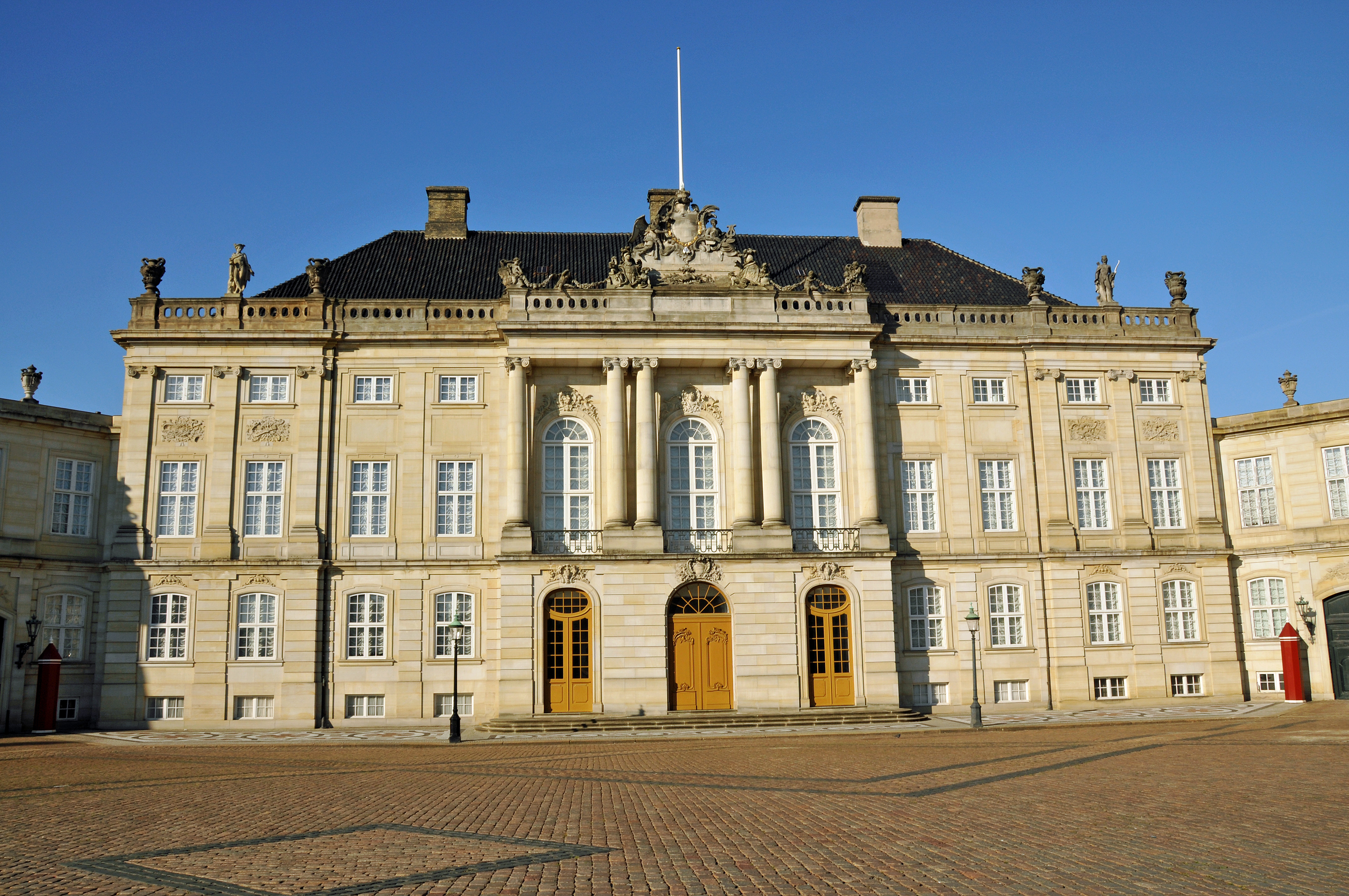 Christian VII's Palæ, one of the four mansions of Amalienborg Palace in Copenhagen, Denmark